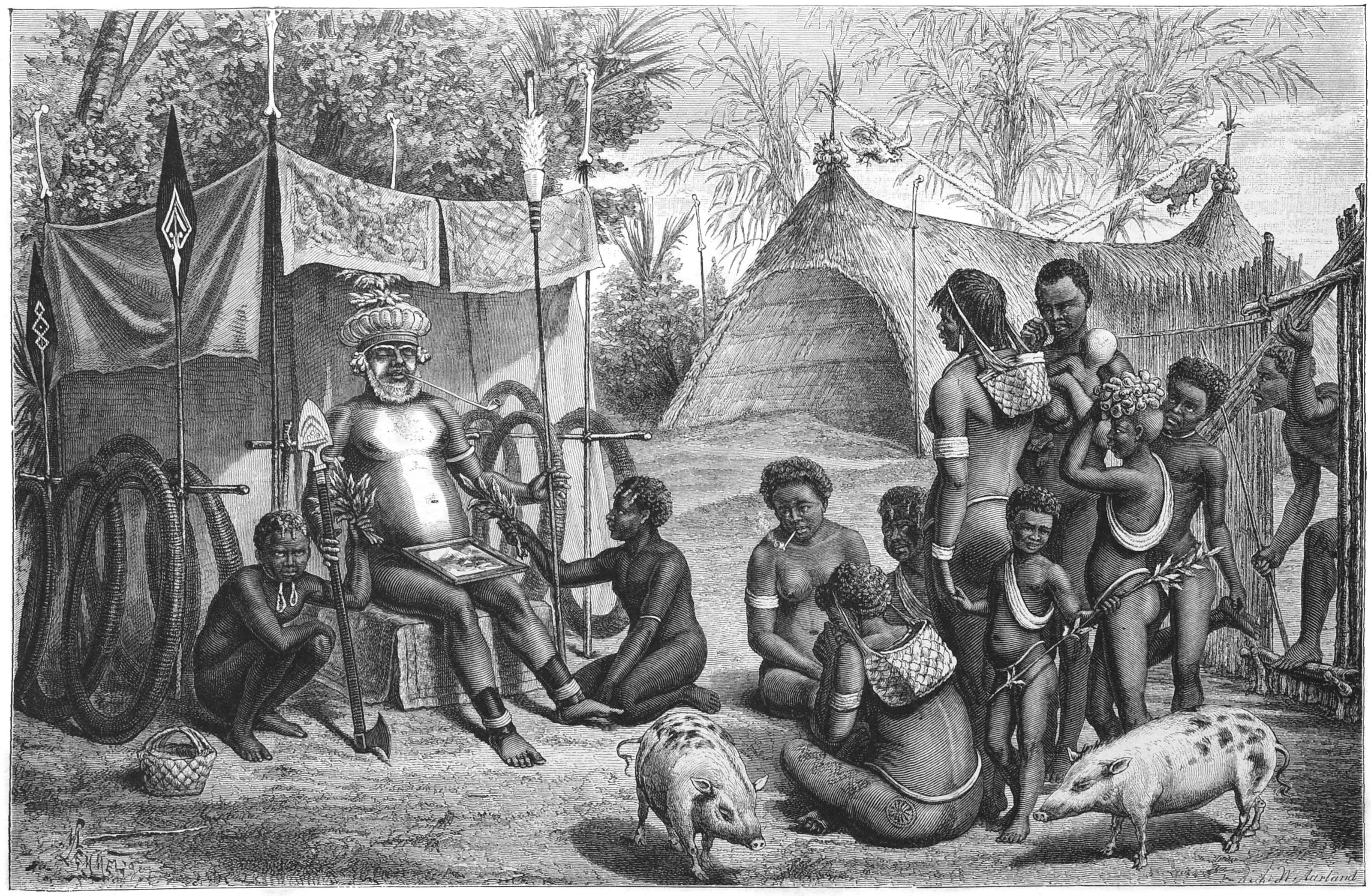 caption: "Leichenfeier in Neu-Britannien. Für die „Gartenlaube“ nach der Natur aufgenommen von O. Finsch. Auf Holz gezeichnet von Martin Laemmel."